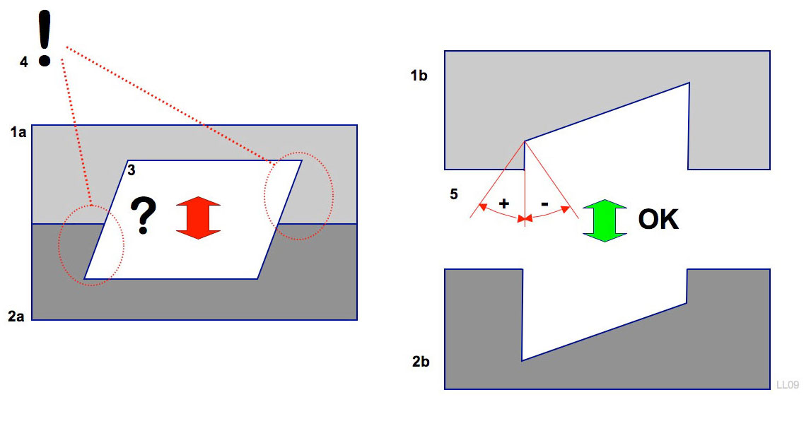 Description of the ‘udercut’ principle in a tool.